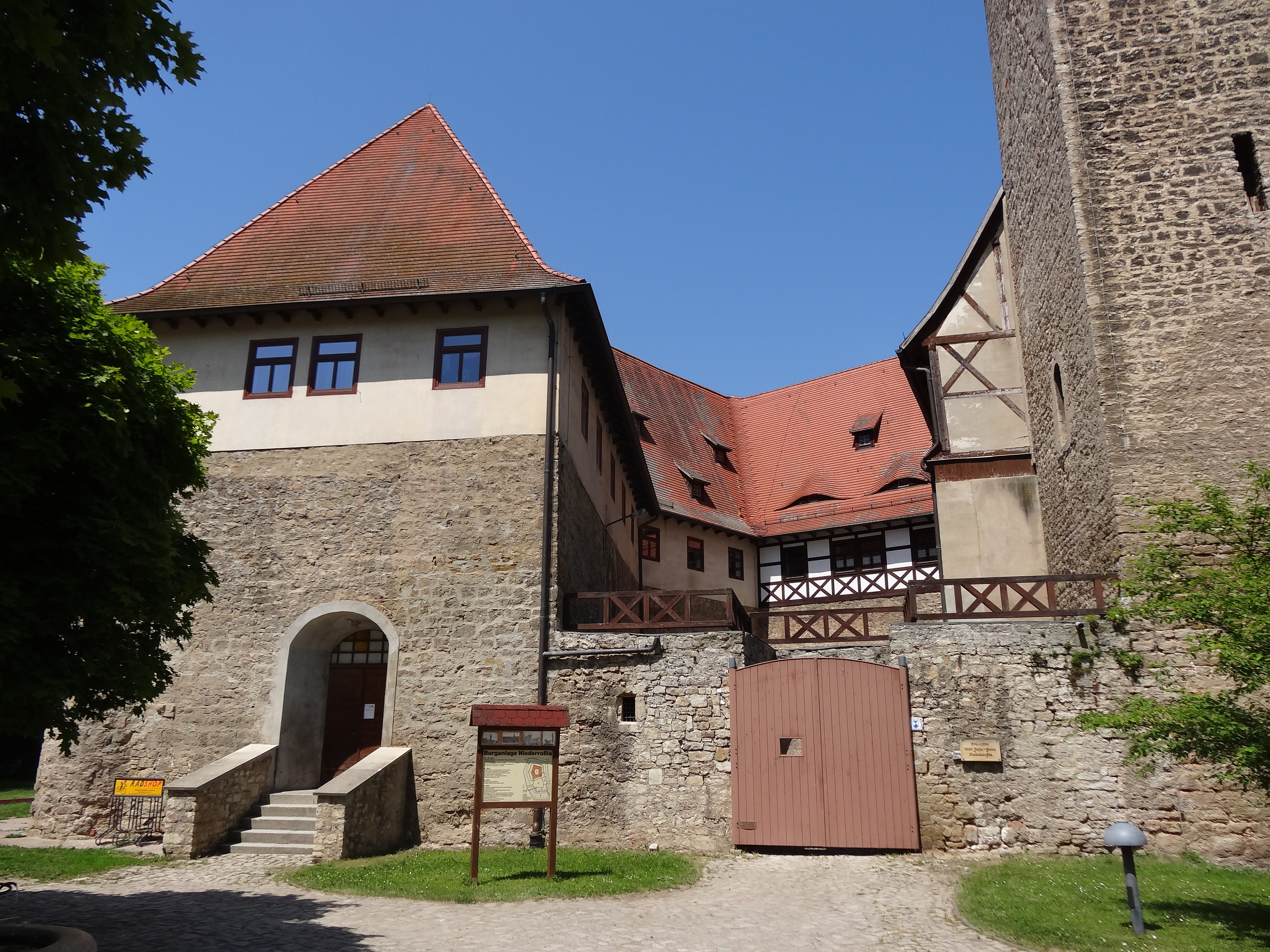 Water castle in Niederroßla, Thuringia, Germany